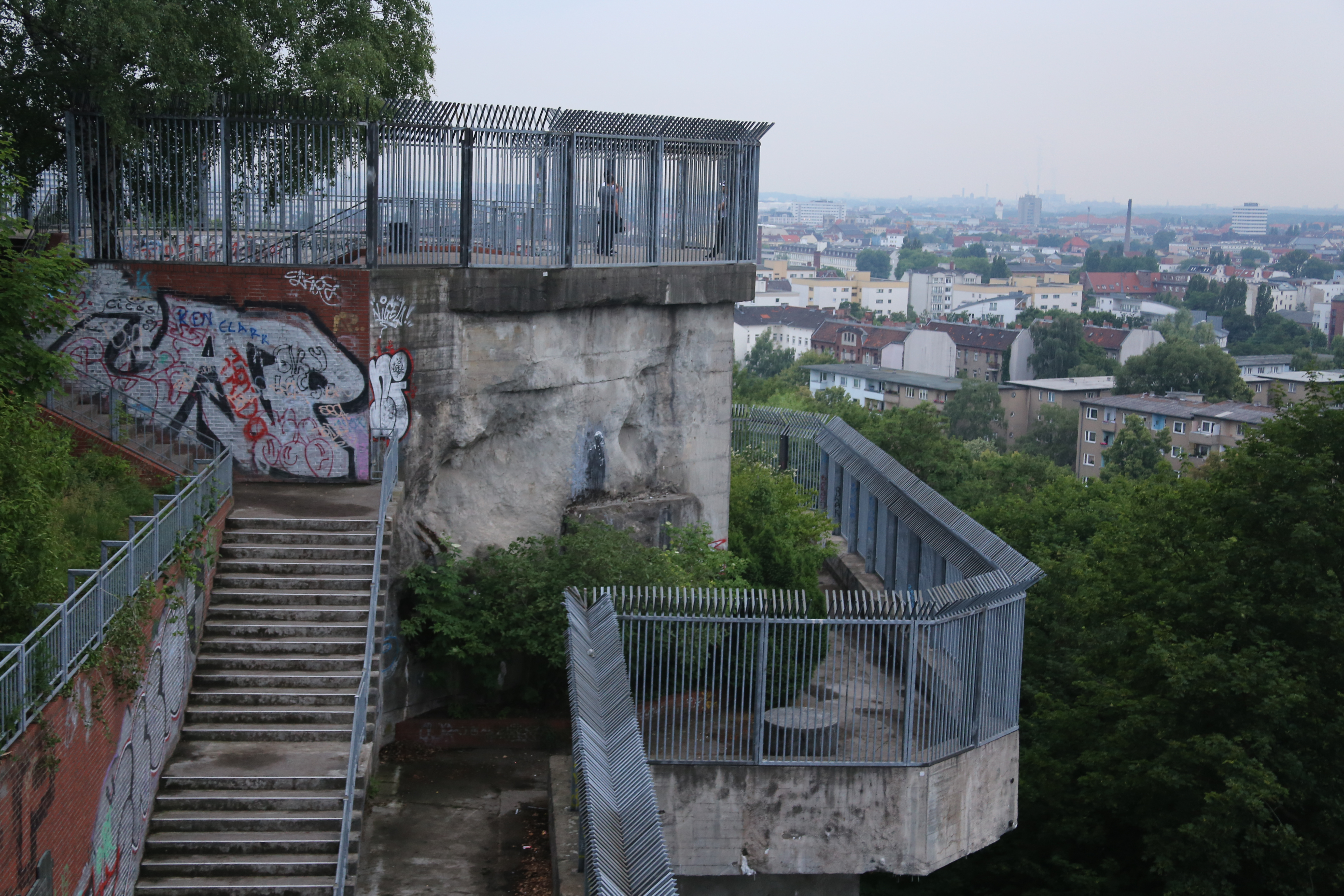 Humbolthain Flak tower in Berlin